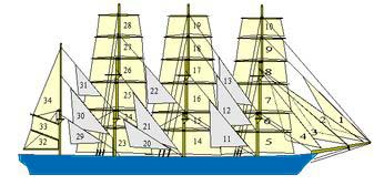 Drawing of the sails of a four mast bark.